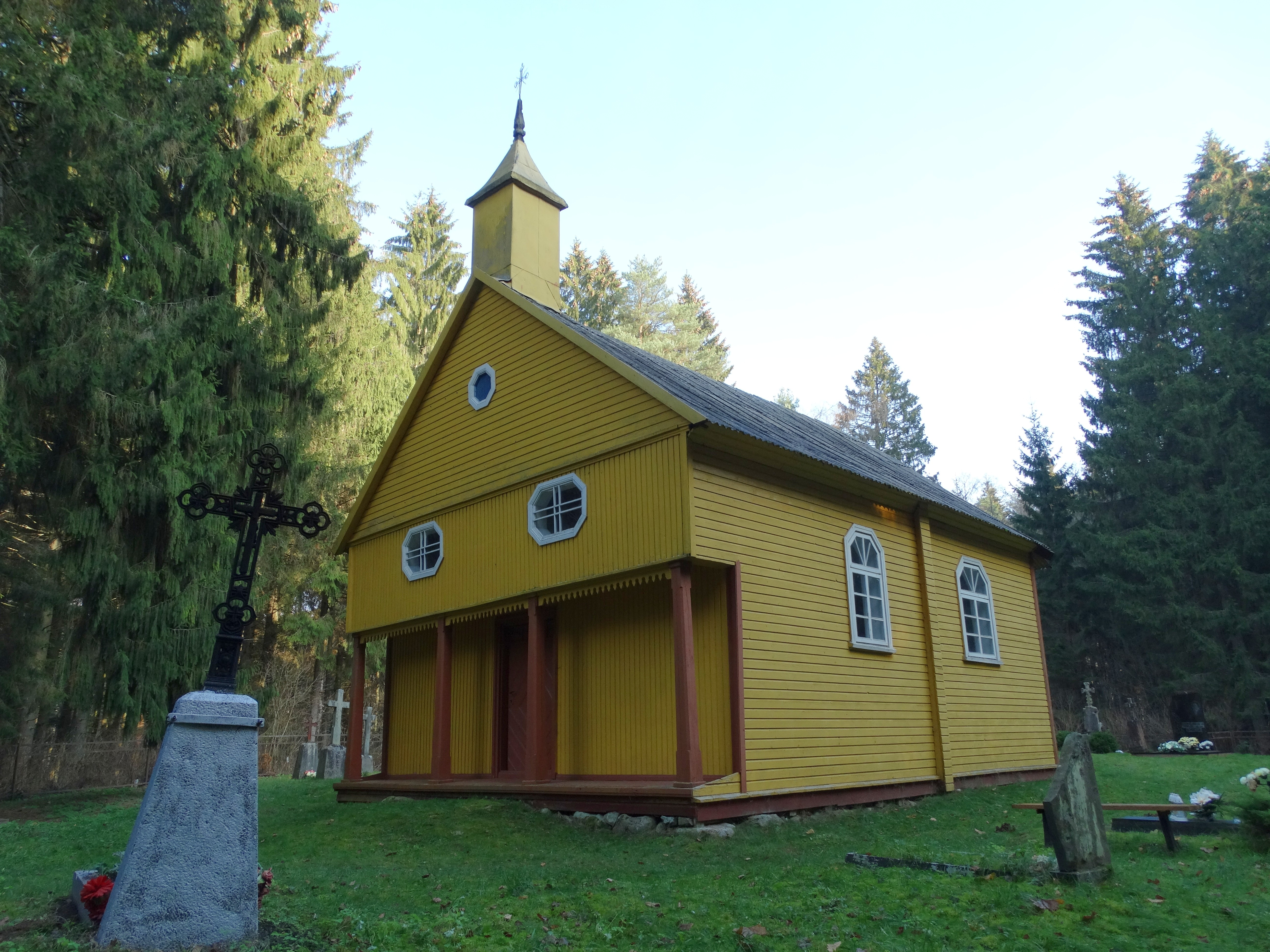 Chapel in Porijai, Pasvalys district, Lithuania